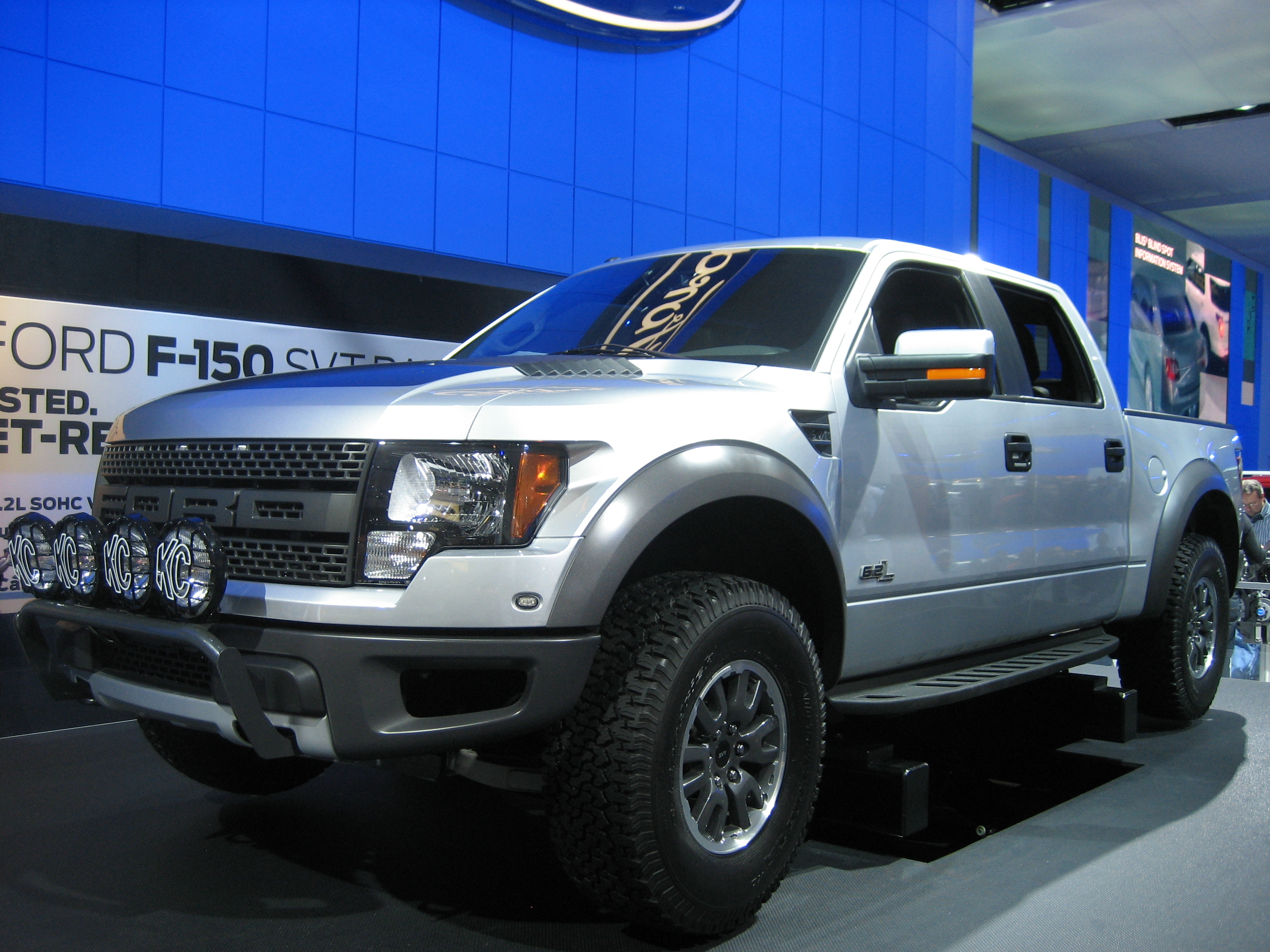 2011 Ford Raptor at the 2011 Detroit Auto Show